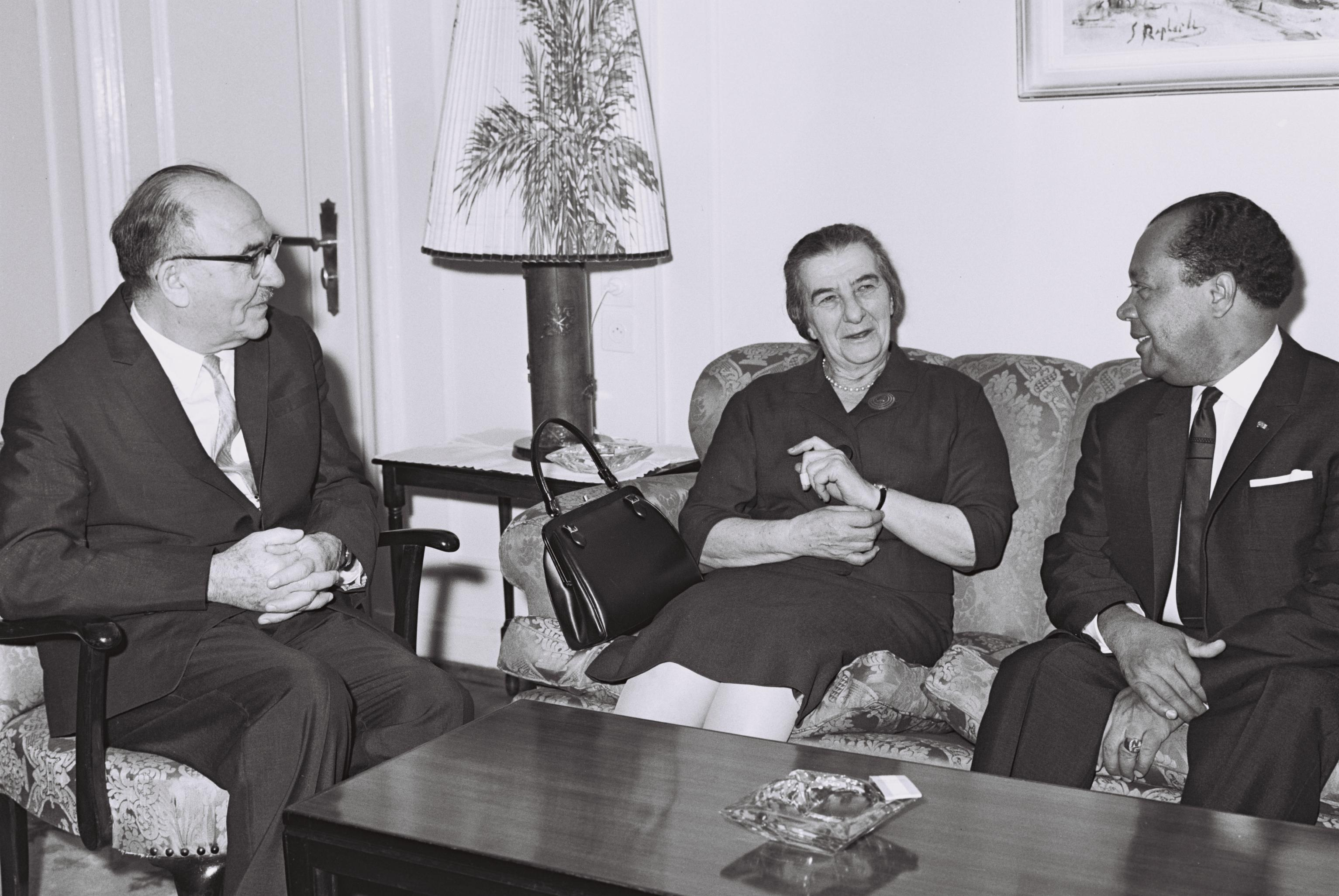 PRESIDENT NICOLAS GRUNITZKY FROM TOGO MEETING WITH P.M. LEVY ESHKOL AND FOREIGN MIN. GOLDA MEIR, AT THE KING DAVID HOTEL IN JERUSALEM.